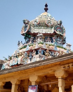 Vimanaof the presiding deity of the Tirusakthimutram Temple in Thanjavur district of Tamil Nadu